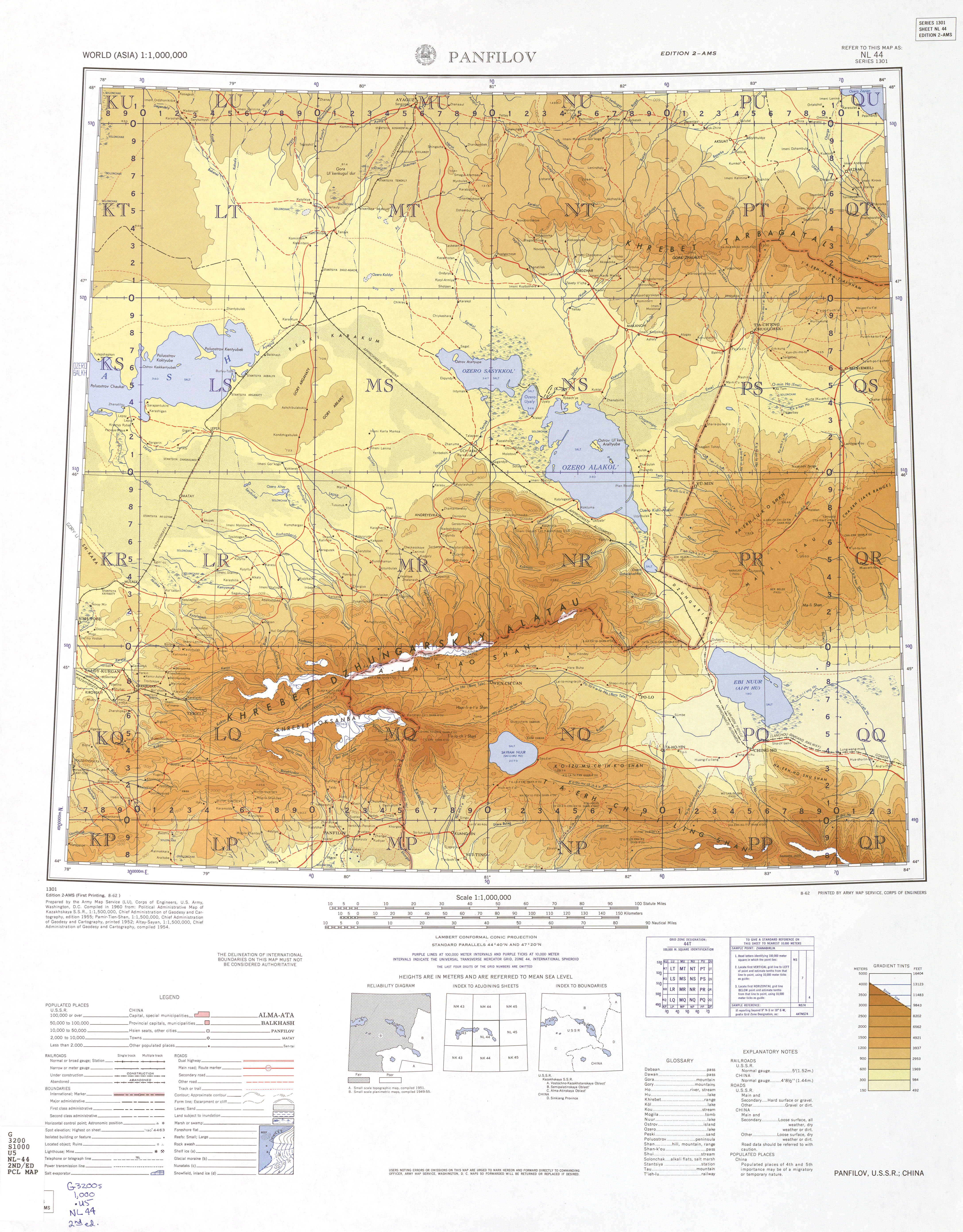 Map of Zharkent (Panfilov), Panfilov District, Almaty Region, Kazakhstan (then part of the USSR) and surrounding region from the International Map of the World 1:1,000,000